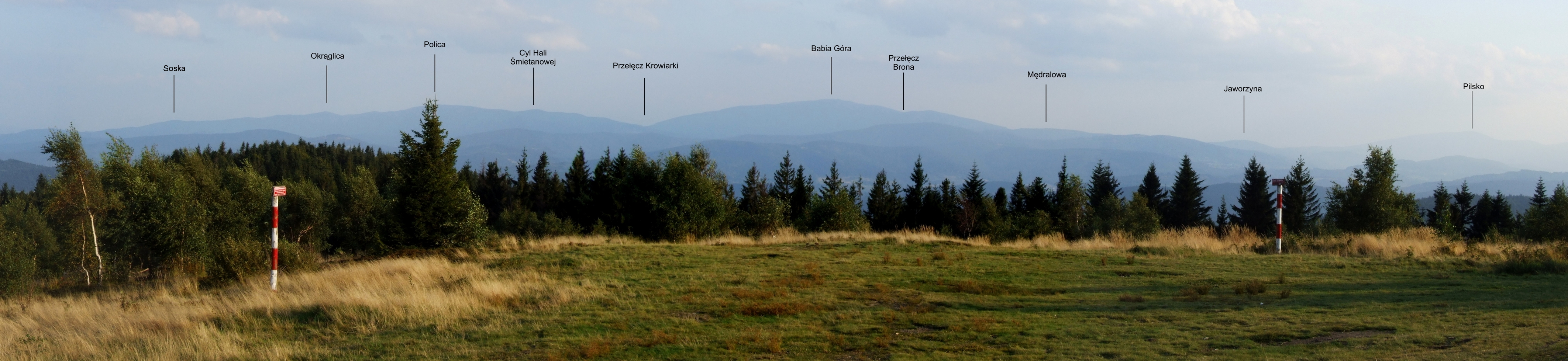 Beskid Żywiecki (Żywiec Mountains) - view from Leskowiec in Beskid Mały, Poland.